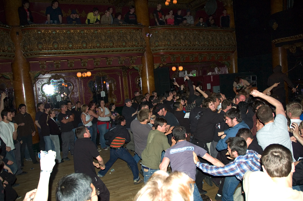 Audience members moshing at a Dillinger Escape Plan show, Great American Music Hall, San Francisco.